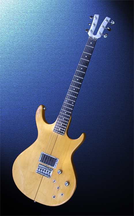 Electric guitar, solidbody, Kramer XKG-20 circa 1980, heavily modified.